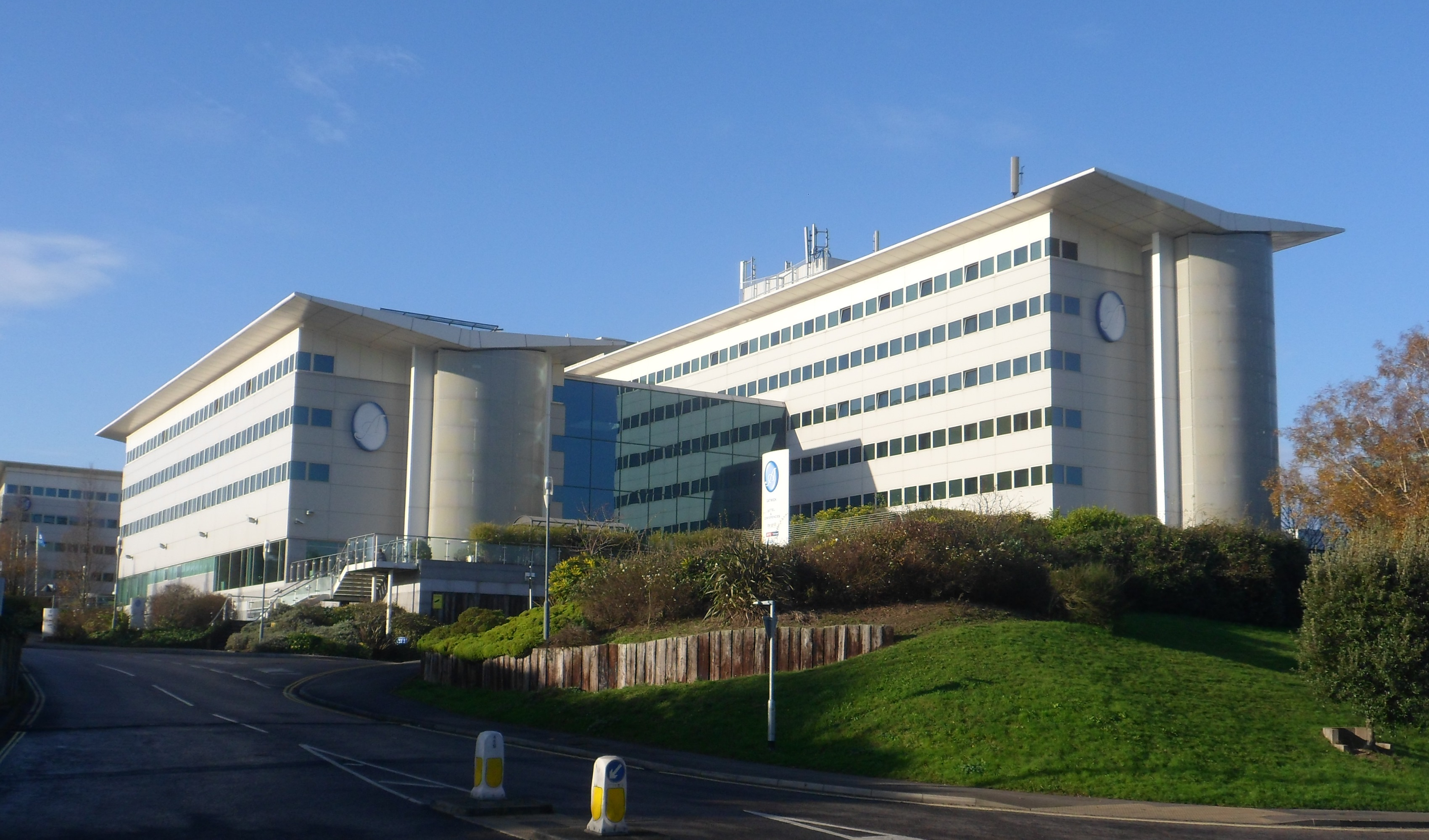 The Arora International Gatwick/Crawley Hotel, Southgate, Crawley, West Sussex, England. A 432-bed hotel constructed behind Crawley railway station in the early 21st century.